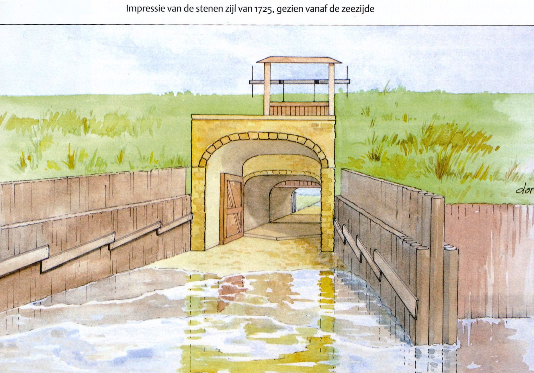 Impression of lock 1725 sea side (Aquarel Dora Overmars)